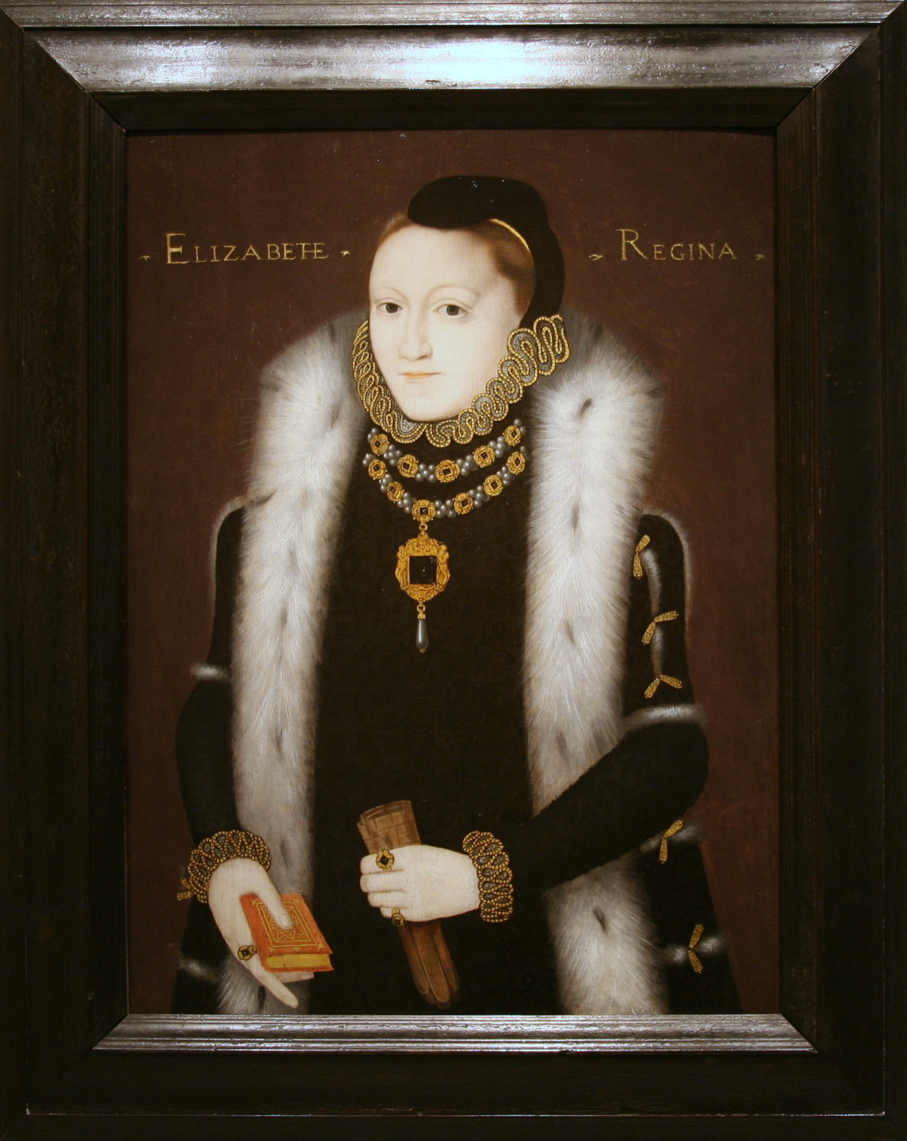 Oil on panel portrait of Elizabeth I of England; one of the "Clopton" portraits.